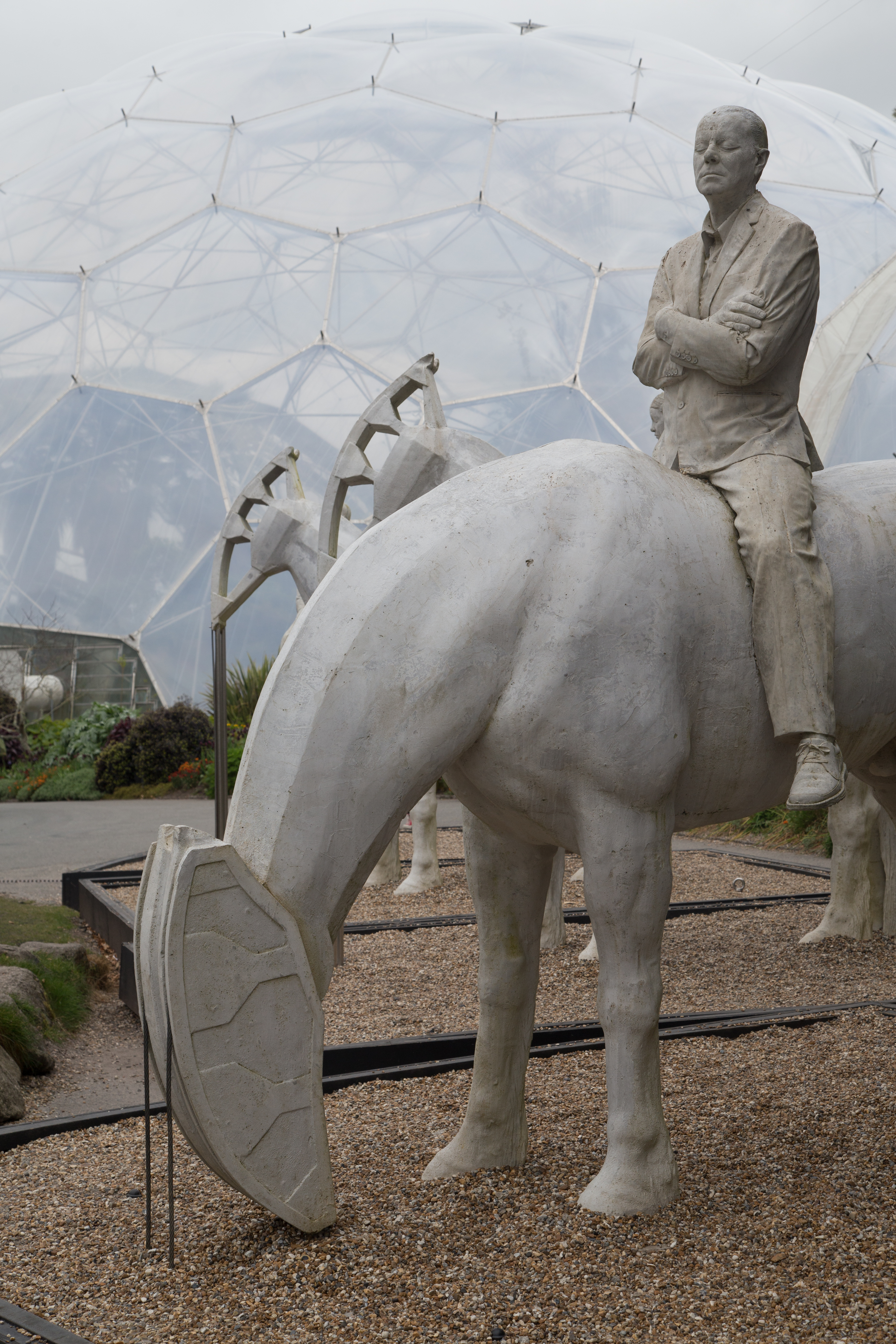 The Rising Tide, Jason deCaires Taylor, 2015